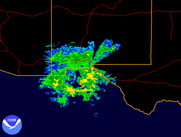 This is a radar image of Hurricane John, 2006, from NWS El Paso NEXRAD radar and was made using JAVA NEXRAD tool.